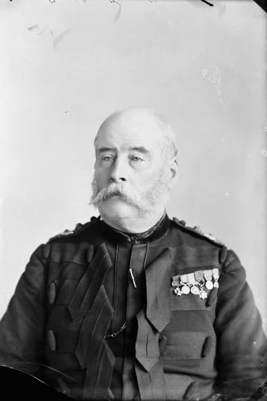 General Lord Alexander George Russell, Commander of Imperial Troops in Canada.